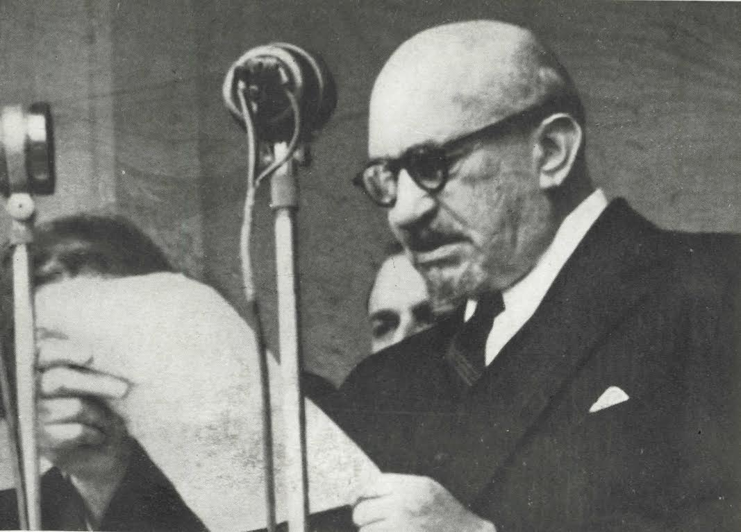 Haim Weizman, People of Israel